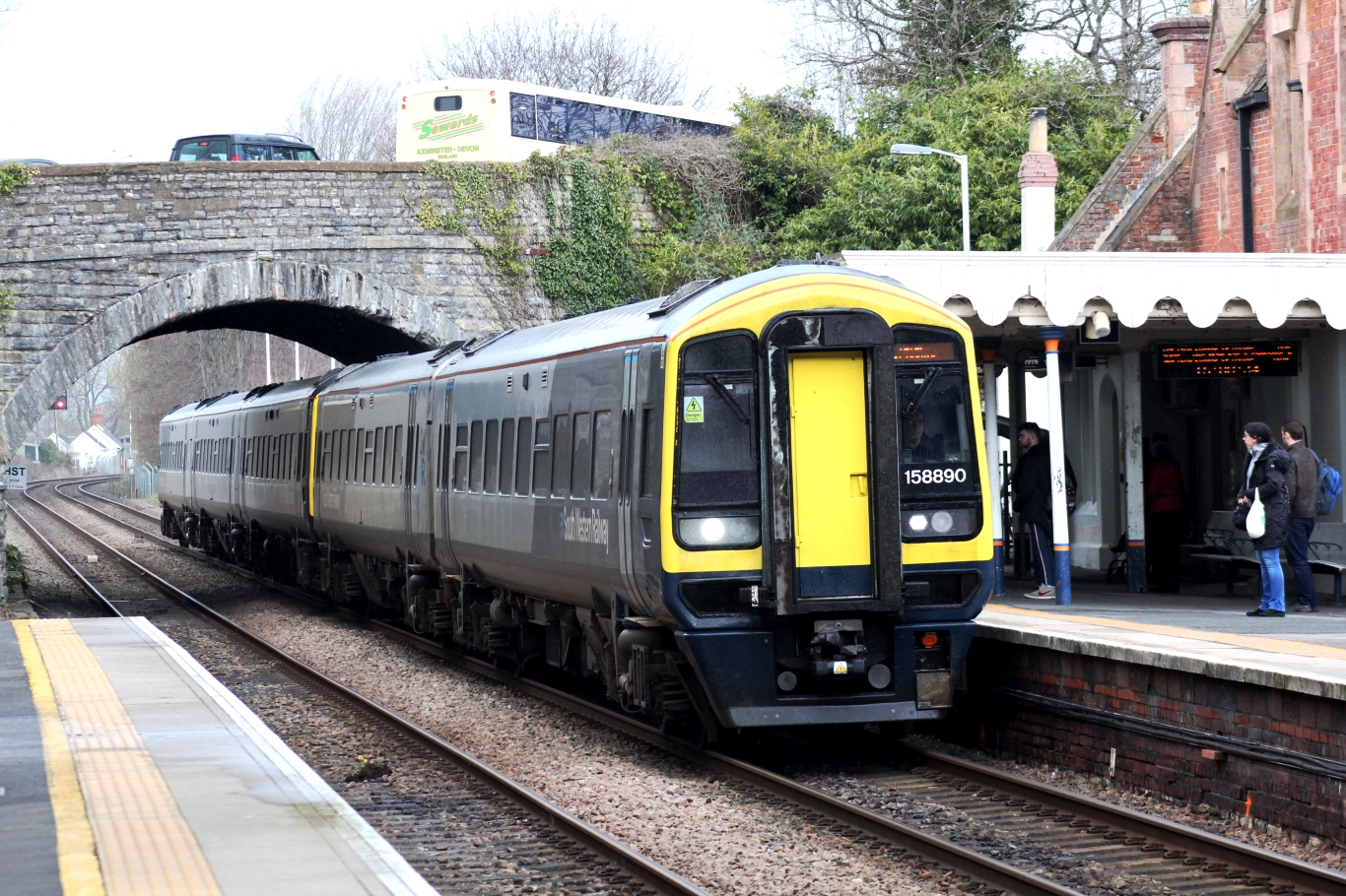 A South Western Railway service from London Waterloo to Exeter St Davids arrives at Axminster. It is formed by untis 158890 and 159011.